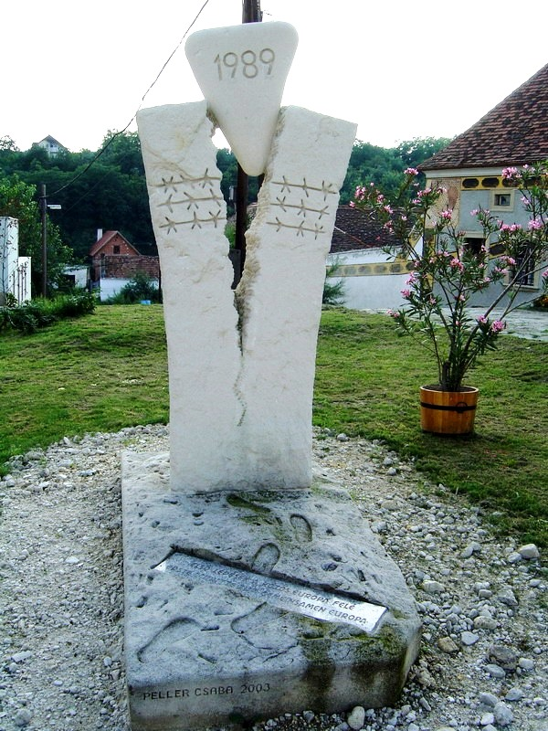 Memorial of the border break-through during the Pan-European Picnic at Fertőrákos on 19 August 1989 The monument was sculpted in 2003 by Csaba Peller. At its base, next to the foot-marks is inscribed a legend in Hungarian and